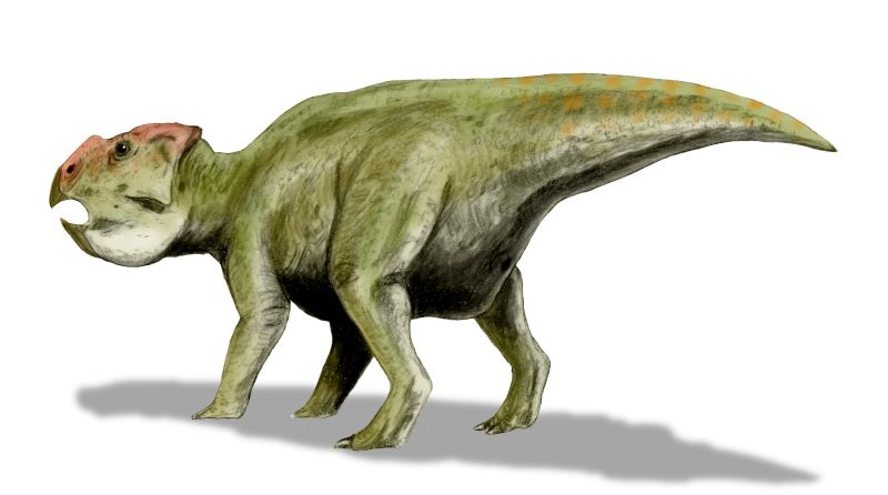 Udanoceratops tschizhovi, a basal ceratopsian from the Late Cretaceous of Mongolia.